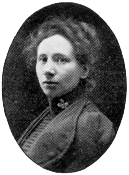 Image scanned from the book "Svenskt Porträttgalleri XX - Arkitekter, Bildhuggare, Målare m.fl. " ("Swedish Portrait Gallery XX - Architects, Sculptors, Painters, ") published 1901